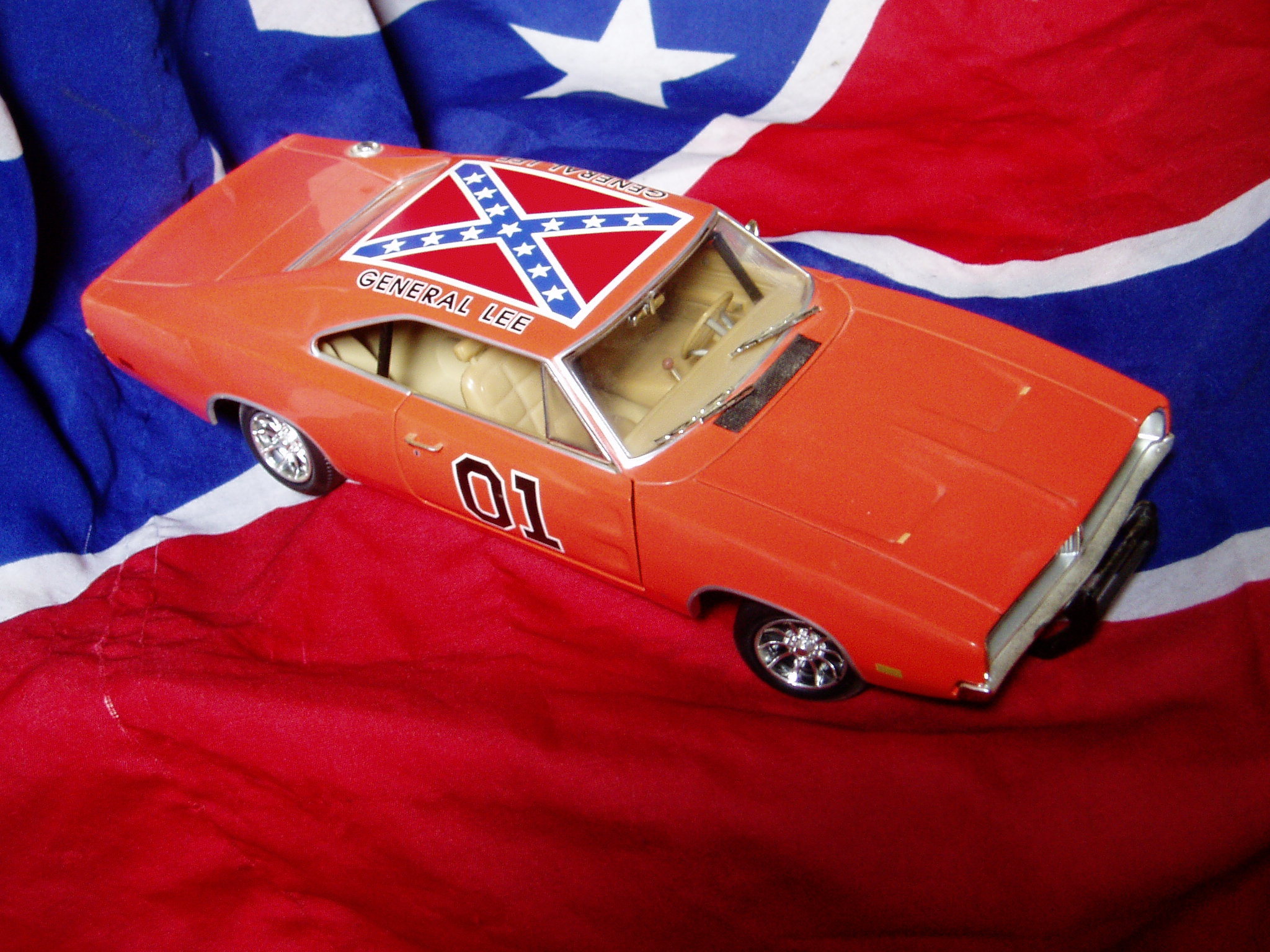 1:18 scale model of the 1969 Dodge Charger presented in the 1979-1984 TV Series "The Dukes of Hazzard" Photo taken by User:Owly K